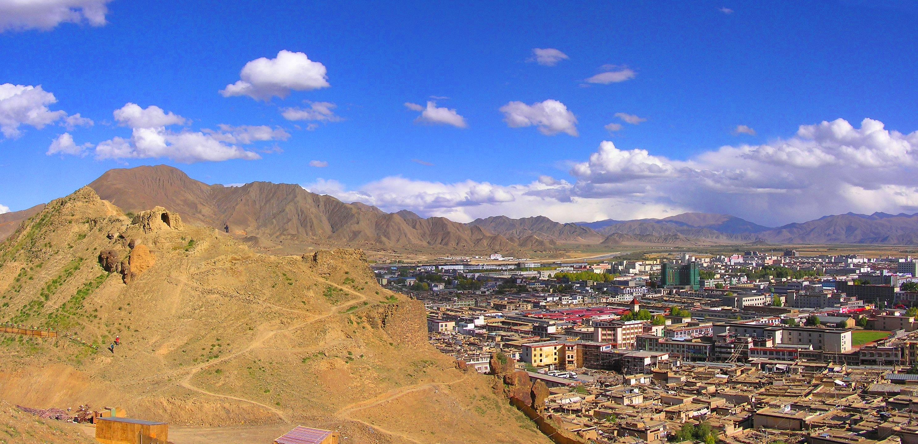 View on the not renovated Castle Sangzhui and the city of Shigatse (Xigaze)